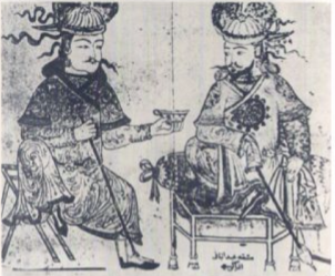 Two amirs by Ebdulbaqi Bakuvi